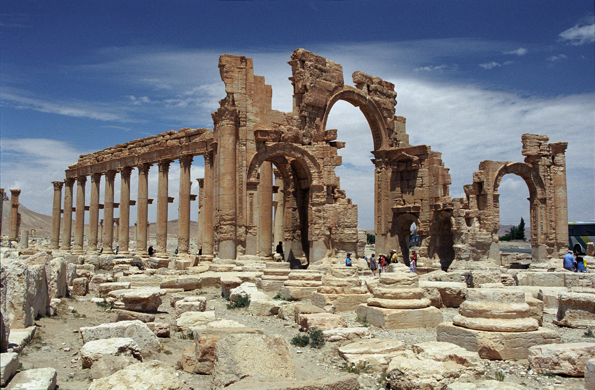 Palmyra, the Grande Colonnade Street